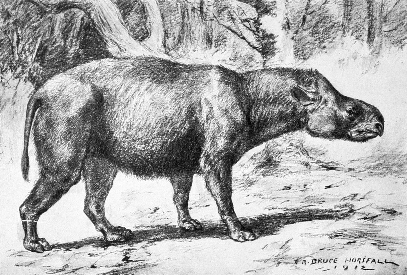 Life restoration of Diceratherium (Caenopus and Subhyracodon tridactylus) tridactylum from W.B. Scott's "A History of Land Mammals in the Western Hemisphere". New York: The Macmillan Company.